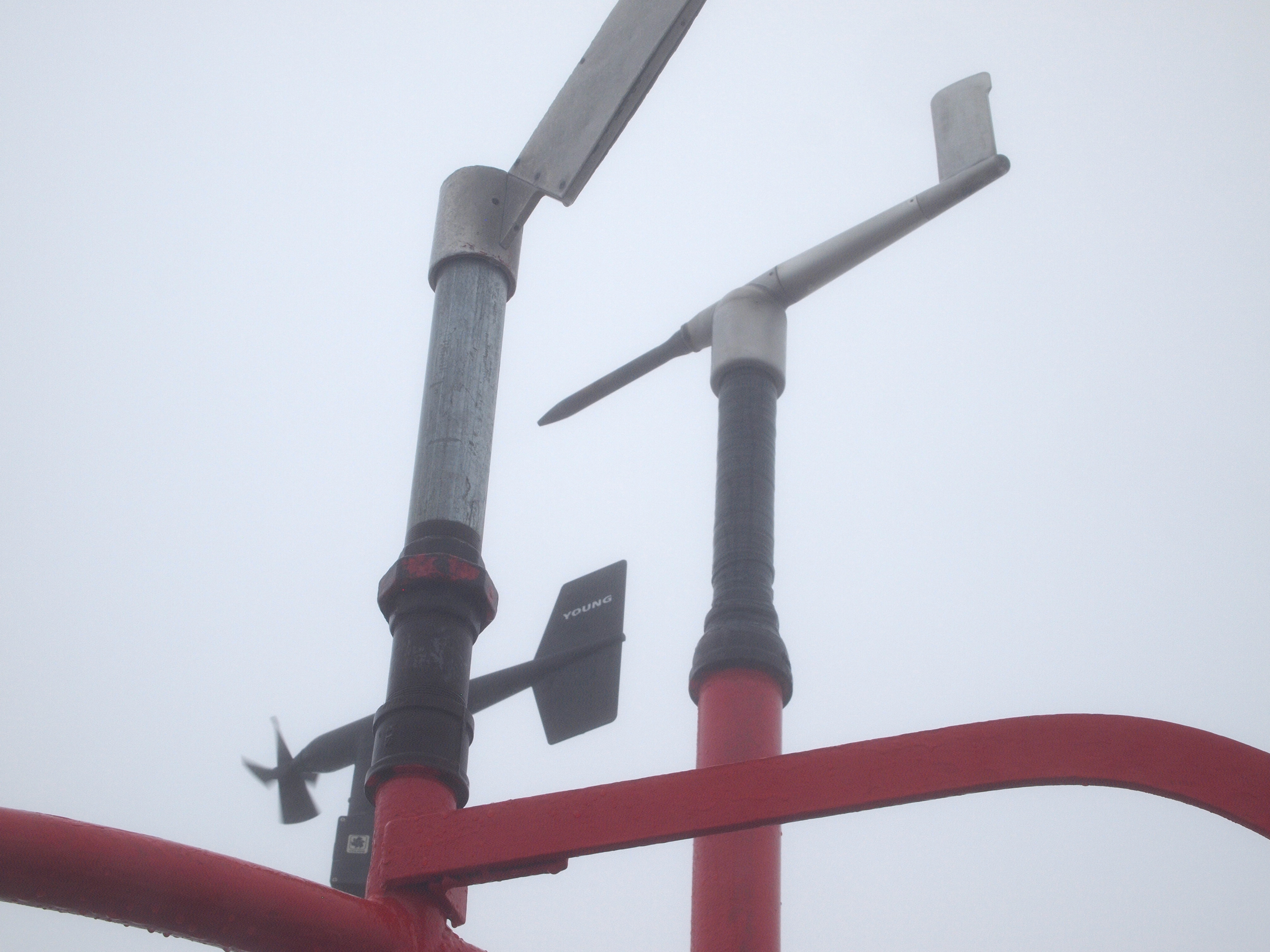 Instruments at Mount Washington Observatory. Left to right: helicoid anemometer, wind vane, and pitot tube static anemometer.